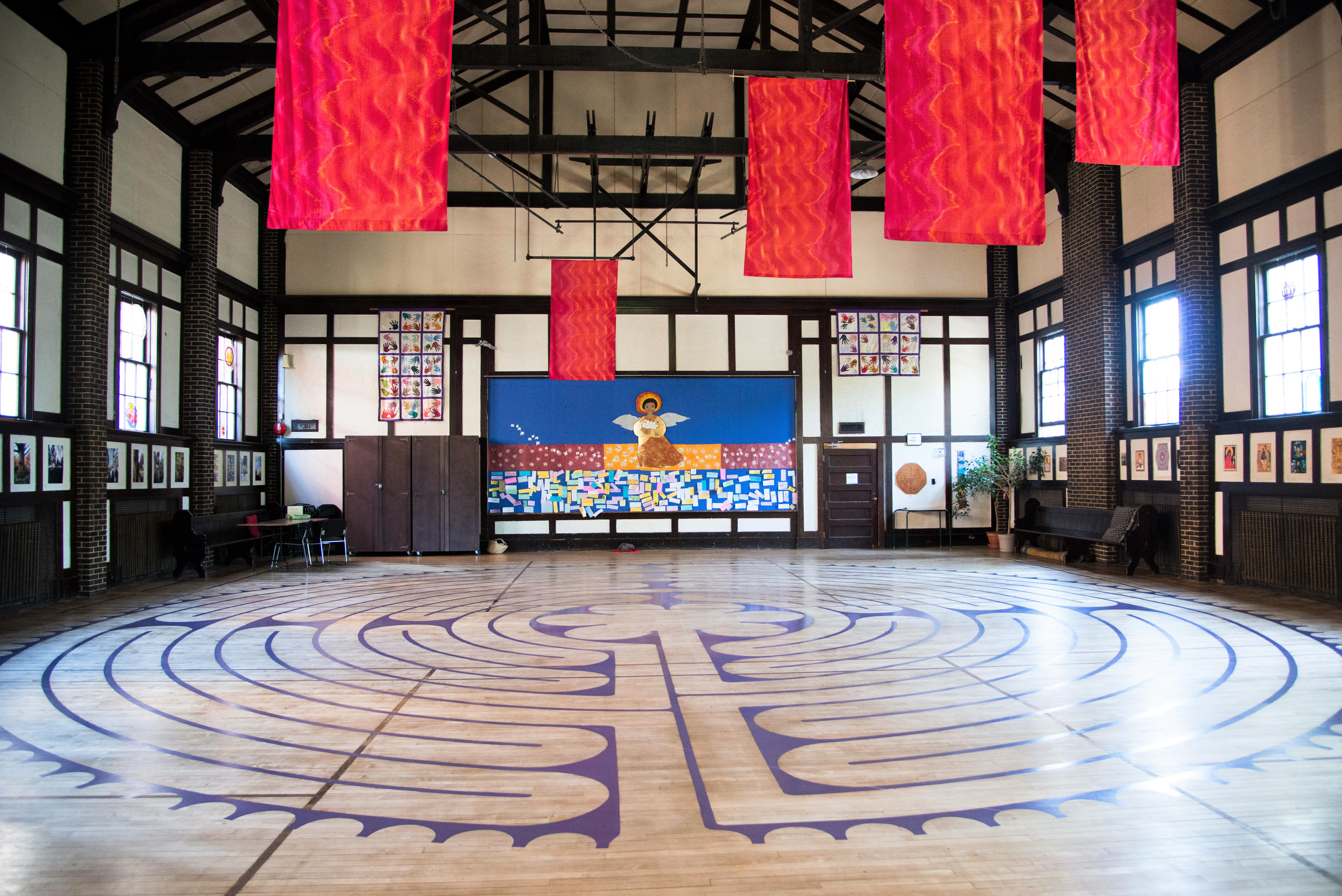 This is the first indoor labyrinth crated in Canada following the revival of labyrinth walking in the 1990s.